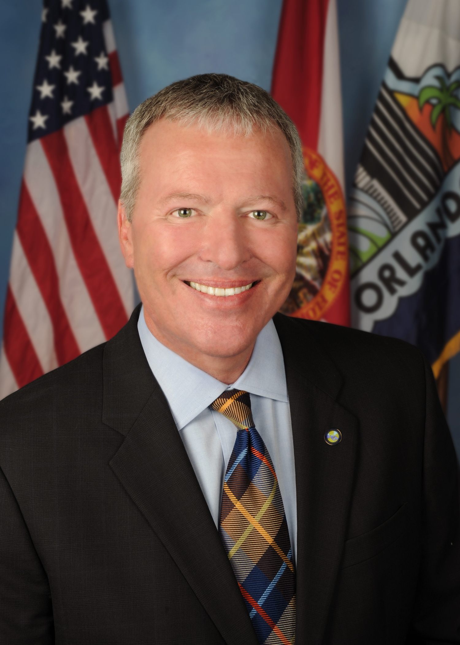 Buddy Dyer is the dean of Florida’s “big-city” mayors, having served Orlando’s residents since 2003. Under Orlando’s strong-mayor form of government, Mayor Dyer serves as the City’s chief executive and also helps govern and oversee the operations and growth of its city-owned utility and the Orlando International and Executive Airports.